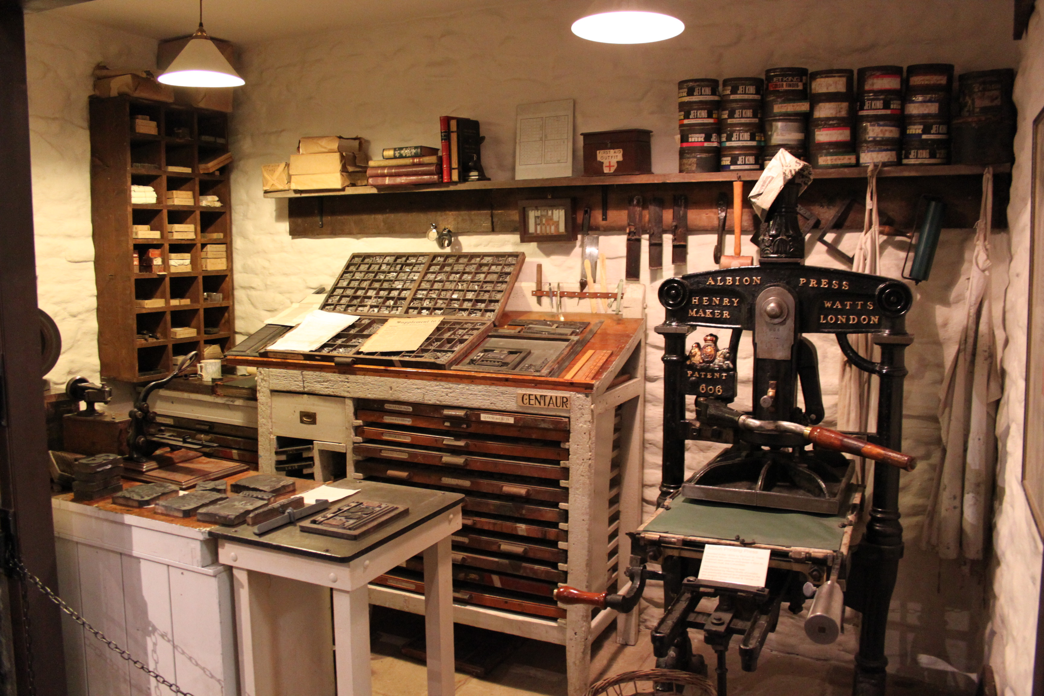 Albion Printing Press made by Henry Watts of London. Taken in Radstock Museum